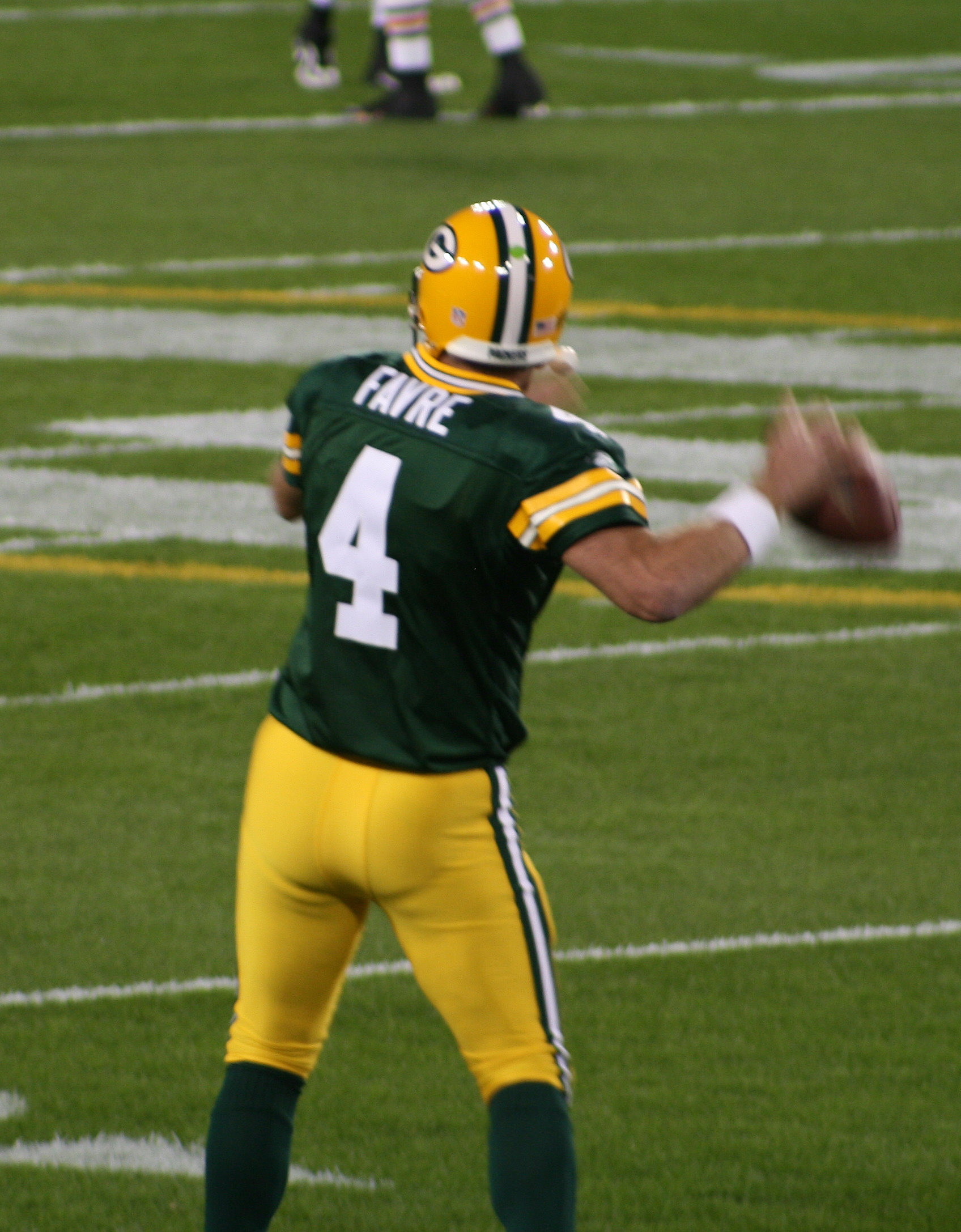 Brett Favre warming up before a game.